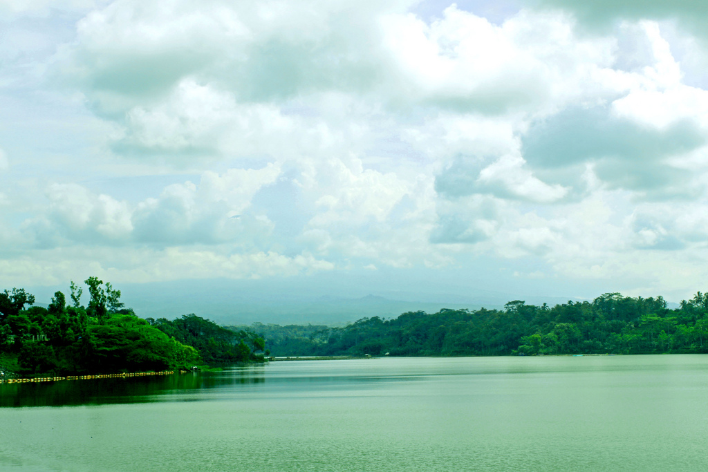 Karangkates Dam, Malang, East Java, Indonesia